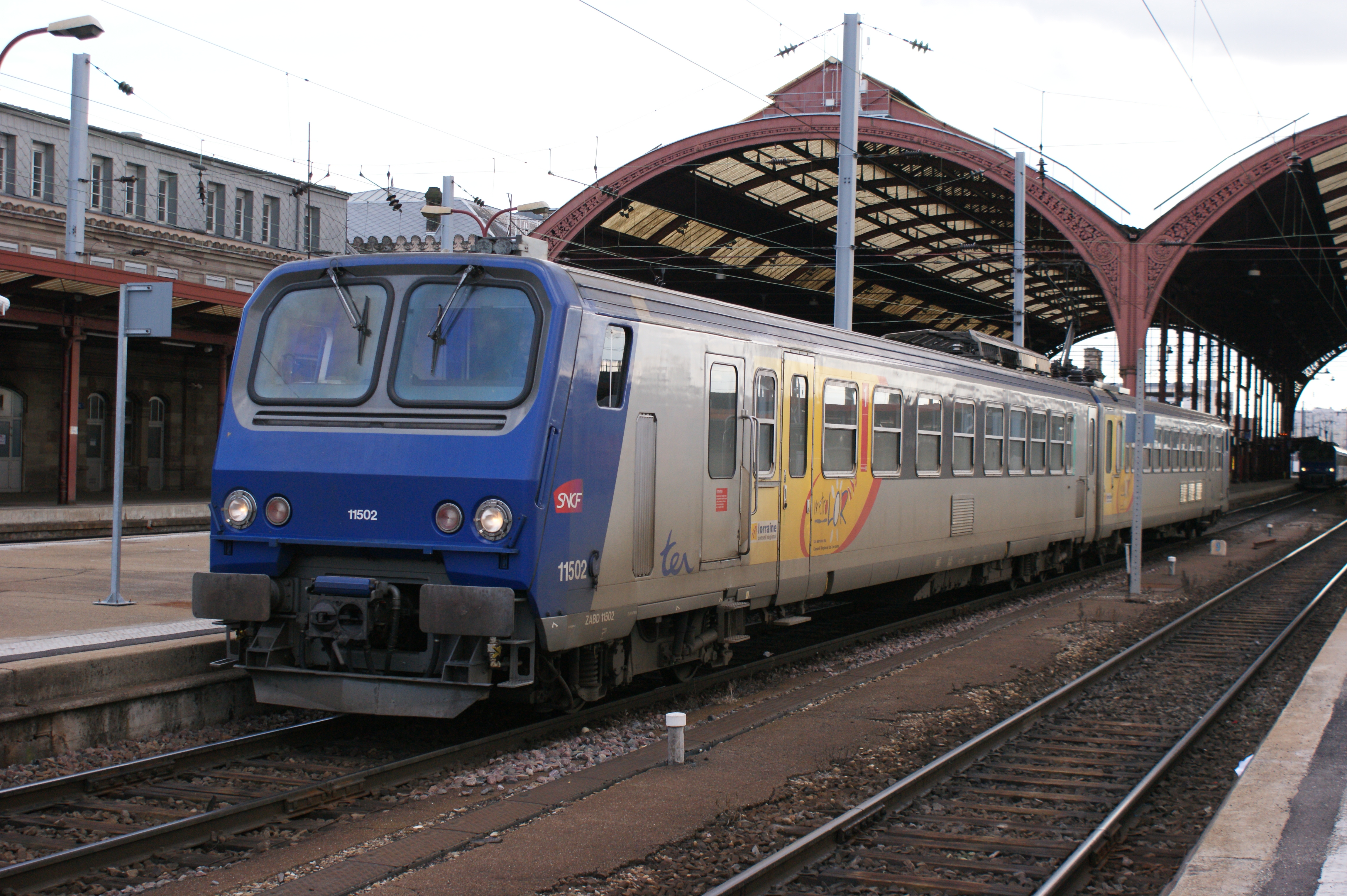 SNCF Alstom/Francorail-MTE Type "Z2" Class Z11500 25kV ac 2-car emu No.Z11502 on a Metz - Strasbourg TER service at the former station, 3/09.